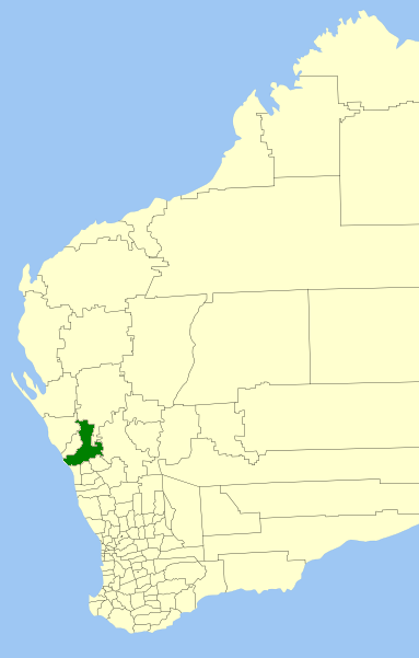 Description=Location of the Local Government Area in Western Australia